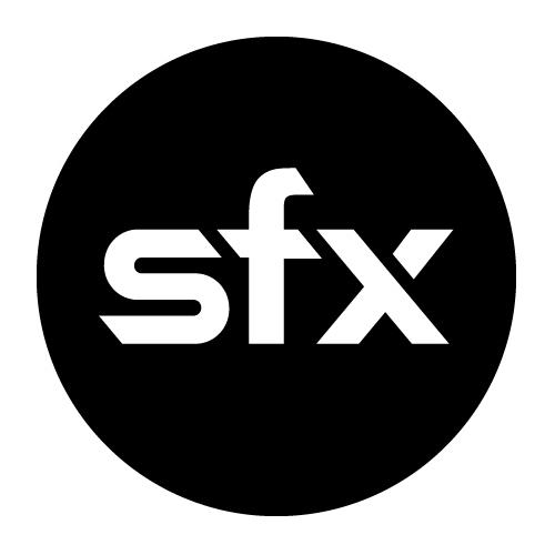 SFX logo